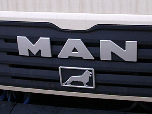 Logo of a MAN truck sold in December 2005. The lion symbol (Braunschweiger Löwe) under the name is adopted from the brand Büssing AG, which MAN took over in 1971.